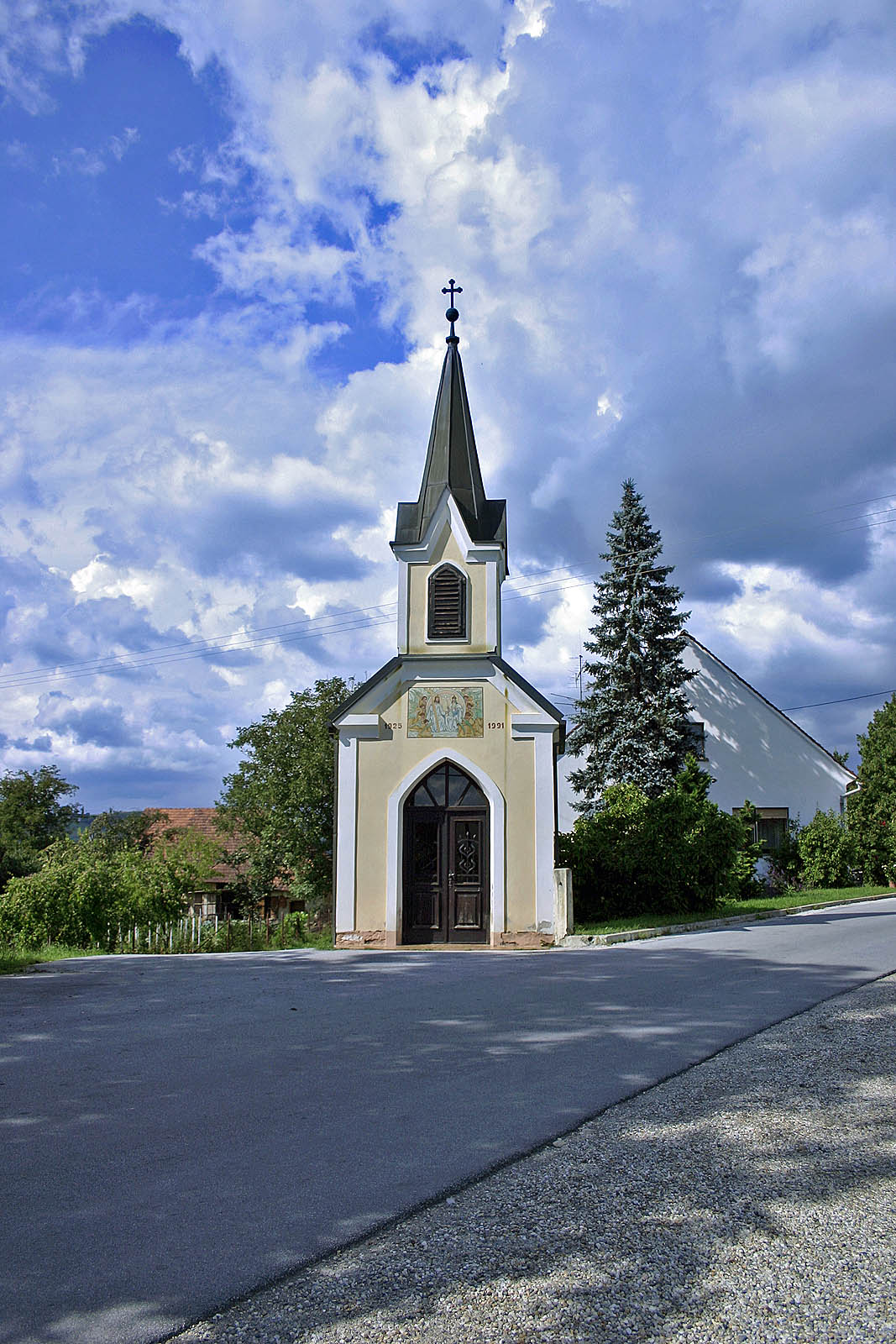 Chapel Nuskova Slovenia